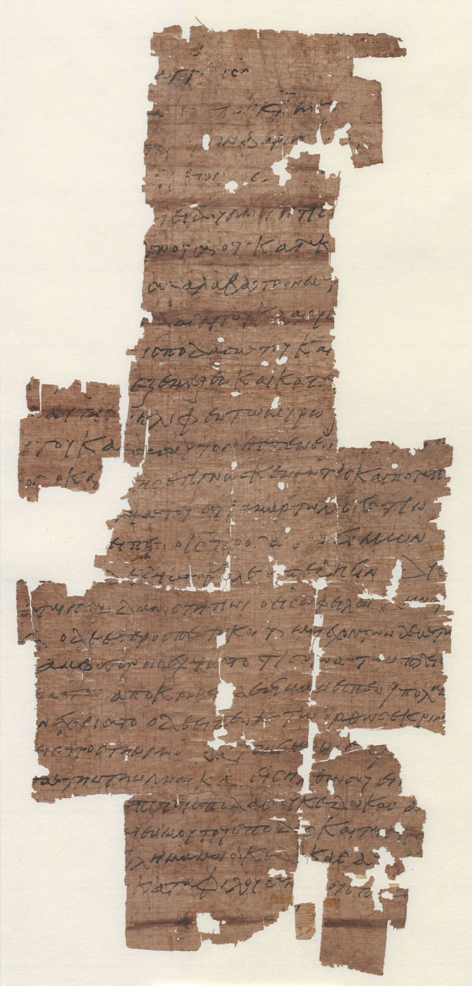 Papyrus 3 - Austrian National Library, P. Vindob. G. 2323 - Gospel of Luke, 7,36–45, 10,38–42 - recto